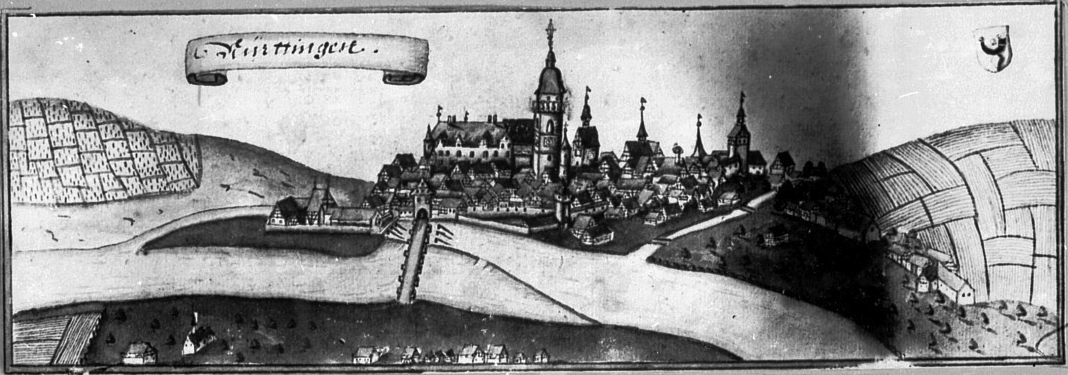 View of Nürtingen from the forest register books created by Andreas Kieser